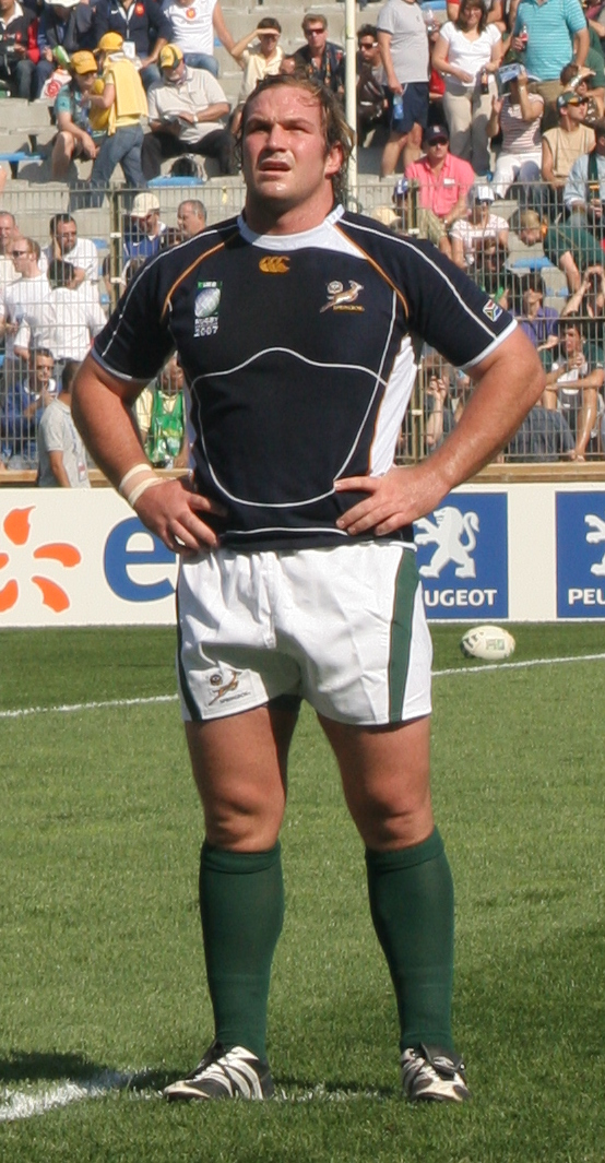 South African rugby union player Jannie du Plessis during a warm-up before 2007 Rugby World Cup quater-final against Fiji, that took place in Marseille.